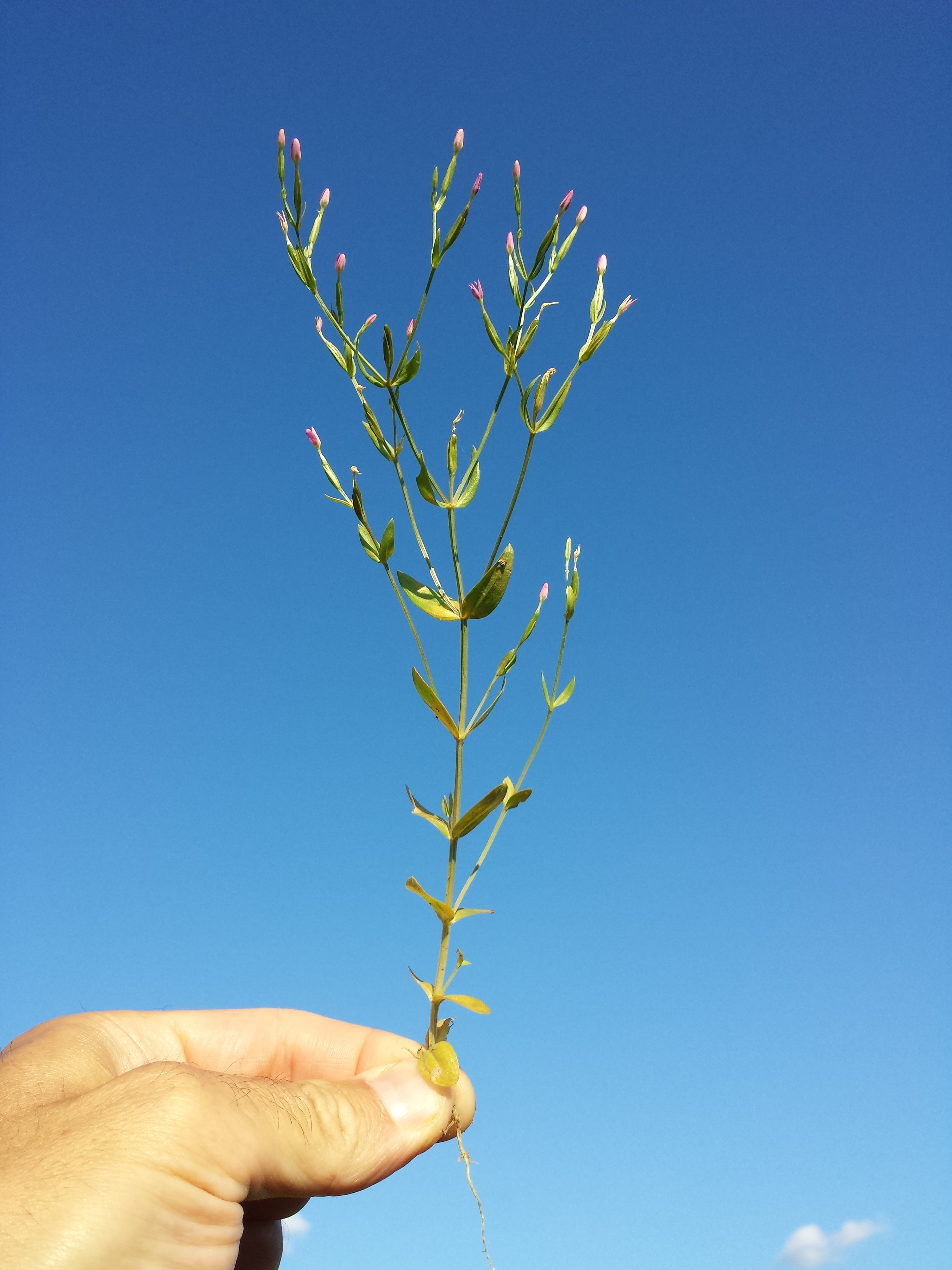 Habitus Taxonym: Centaurium pulchellum ss Fischer et al. EfÖLS 2008 ISBN 978-3-85474-187-9 Location: Neue Donau, Vienna-Floridsdorf - ca. 160 m a.s.l. Habitat: dry meadows